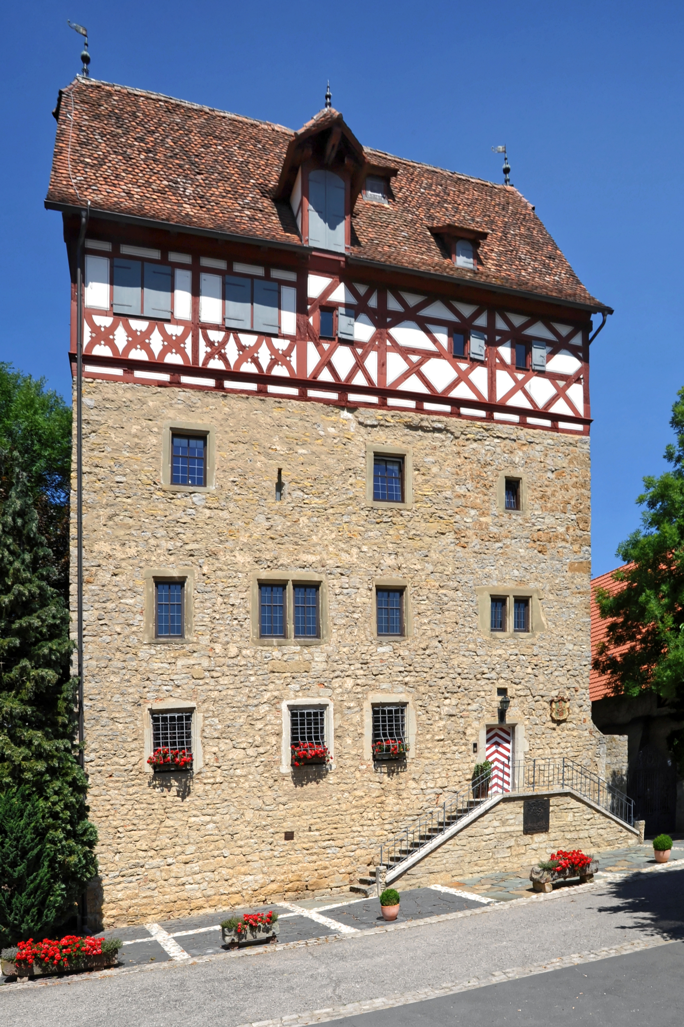 Laudenbach is a idyllic place in the Vorbachtal